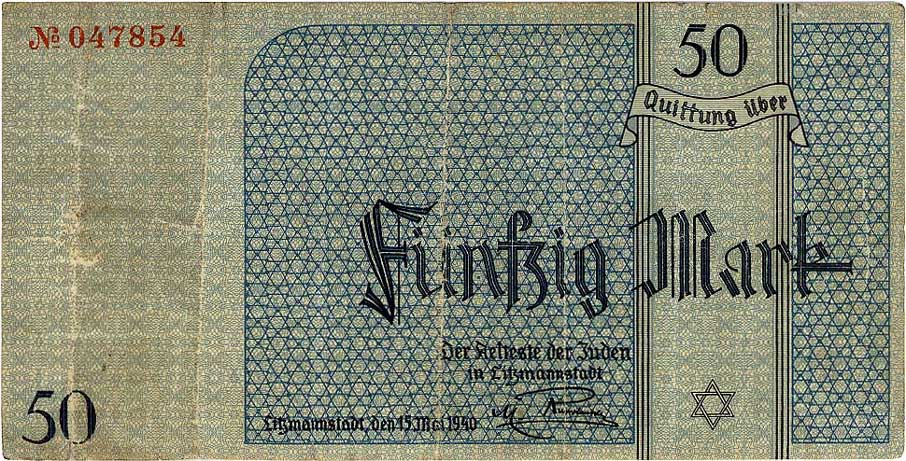 50 mark from Jewish ghetto in Łódź